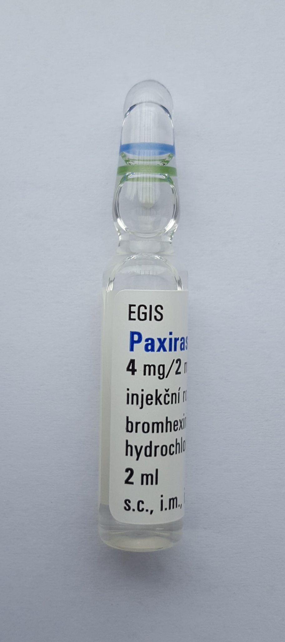 Bromhexine 4mg/2ml vial